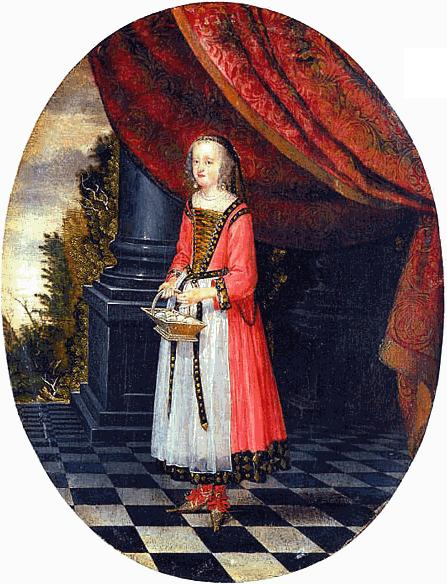 Queen Sophie Amalie of Denmark (born Princess of Brunswick-Lüneburg)